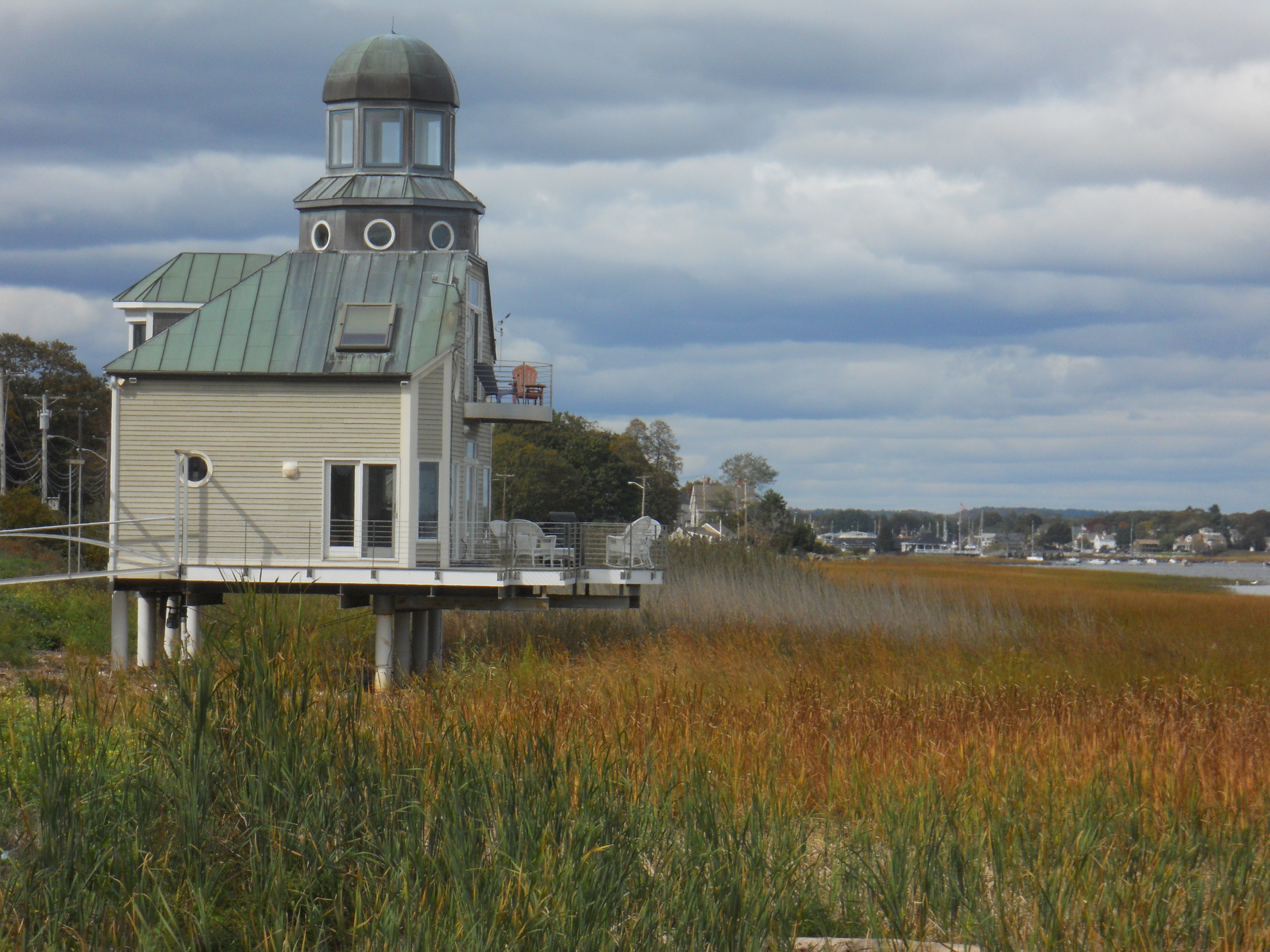 This unusual private home at Joppa Flats extends over the marsh on supports. At high tides the supports project from the surface of the water.